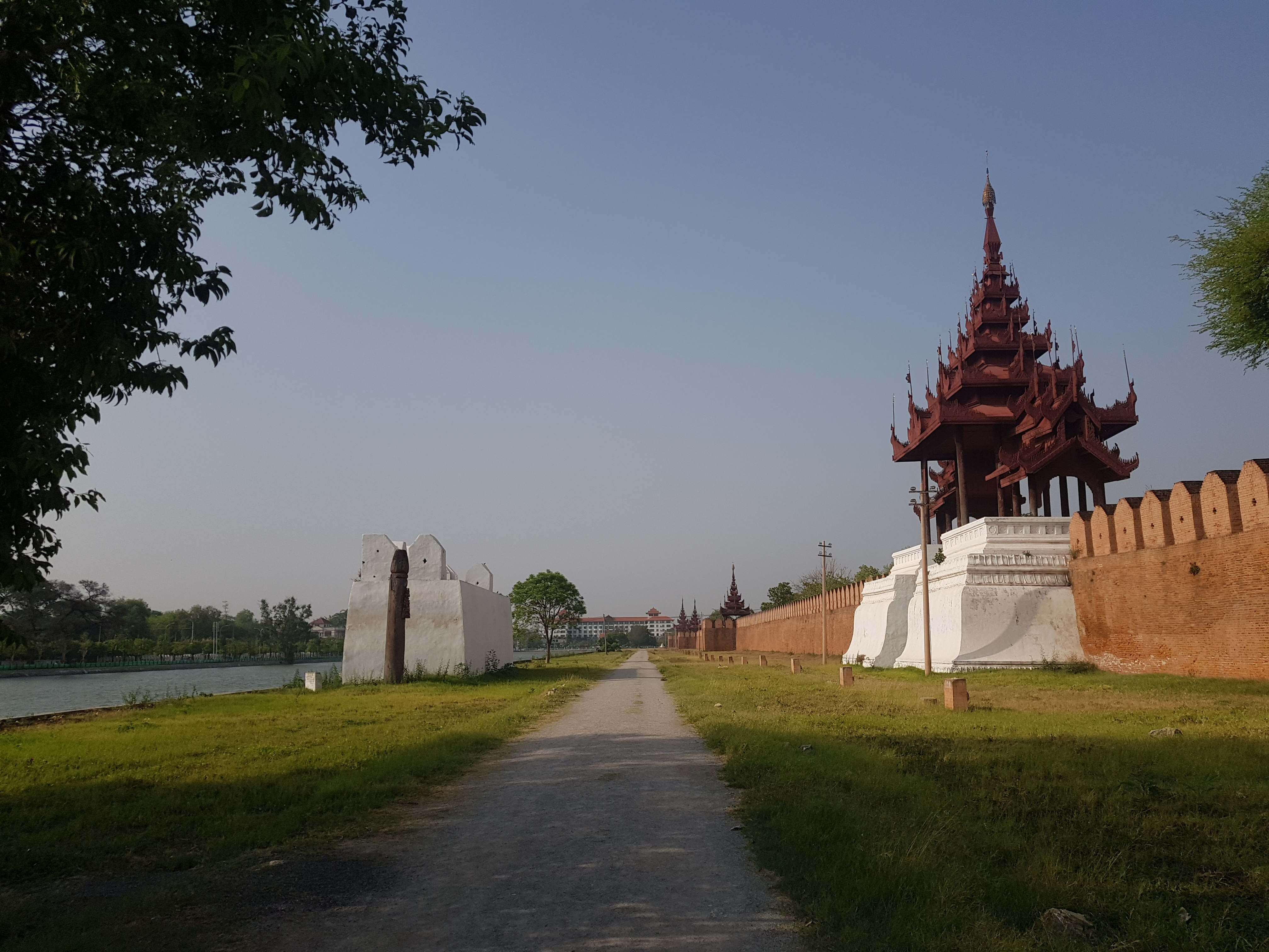 The Wall and Masonry Screen of Mandalay Palace